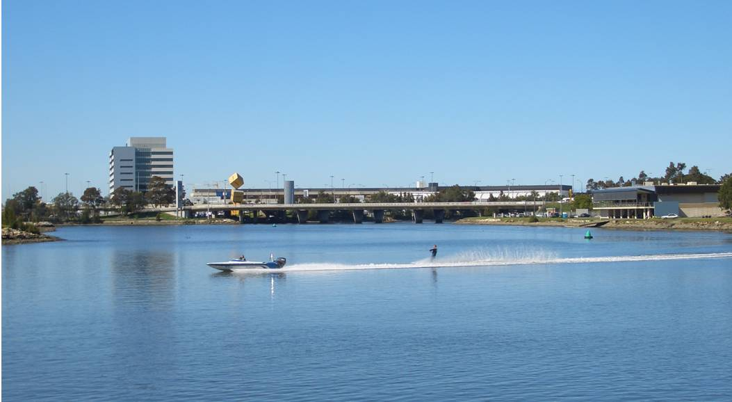 Cooks River between Tempe, Wolli Creek and Sydney Airport